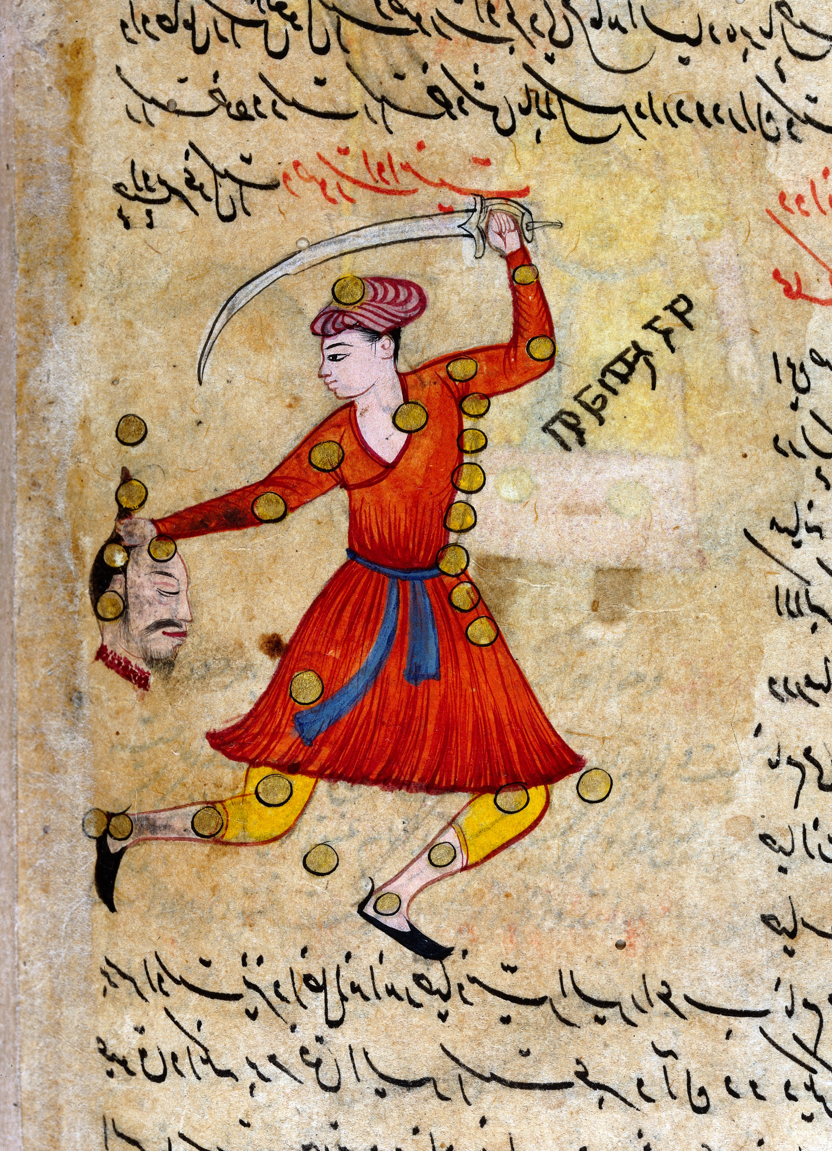 Constellation of Perseus, holding a severed head and sword, from Persian Manuscript 373 Asian Collection Keywords: ms persian 373; Zodiac; Astrology; Astronomy